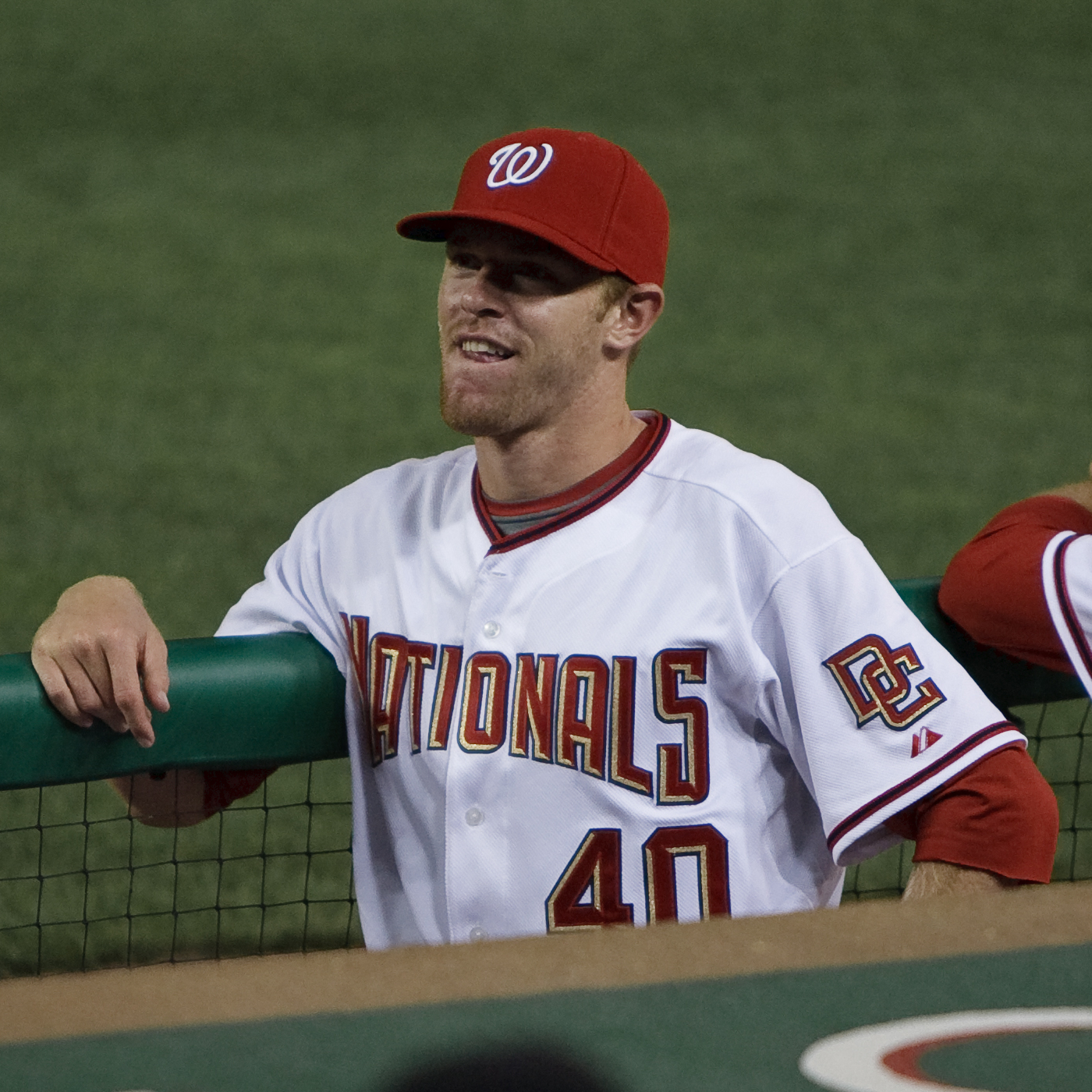 Collin Balester on August 4, 2009